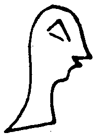 Sumerian pictogram: SAG (= head), old version